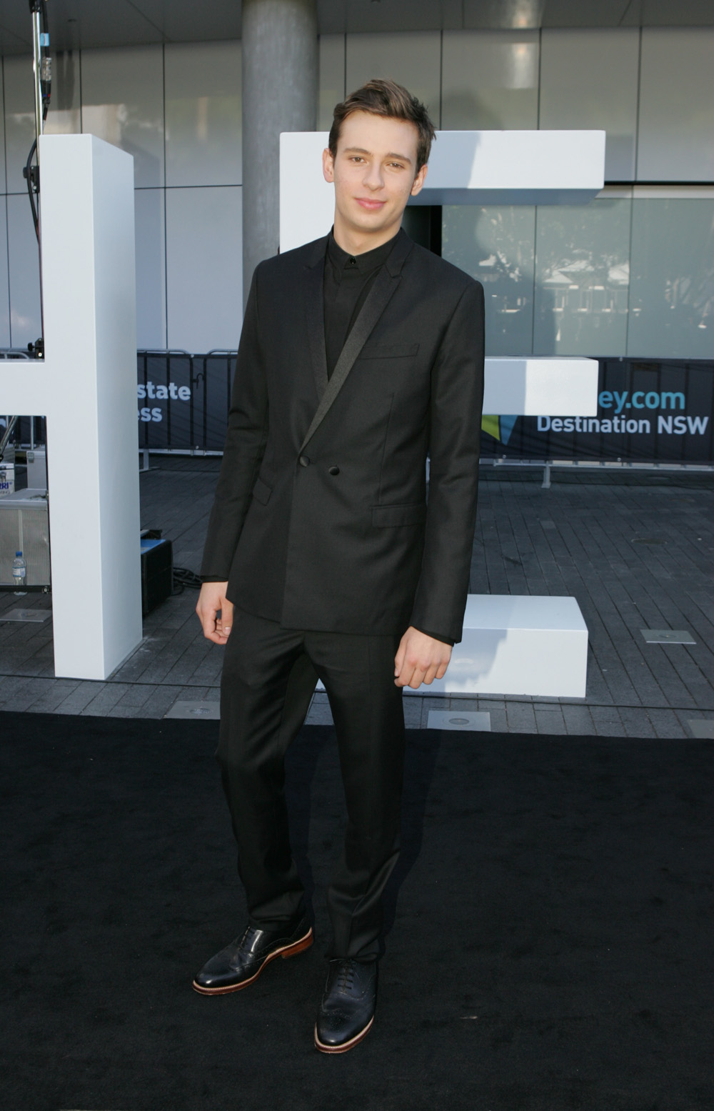 Flume (musician) at the ARIA Awards 2013 ceremony, 1 December 2013, Star Event Centre, Sydney